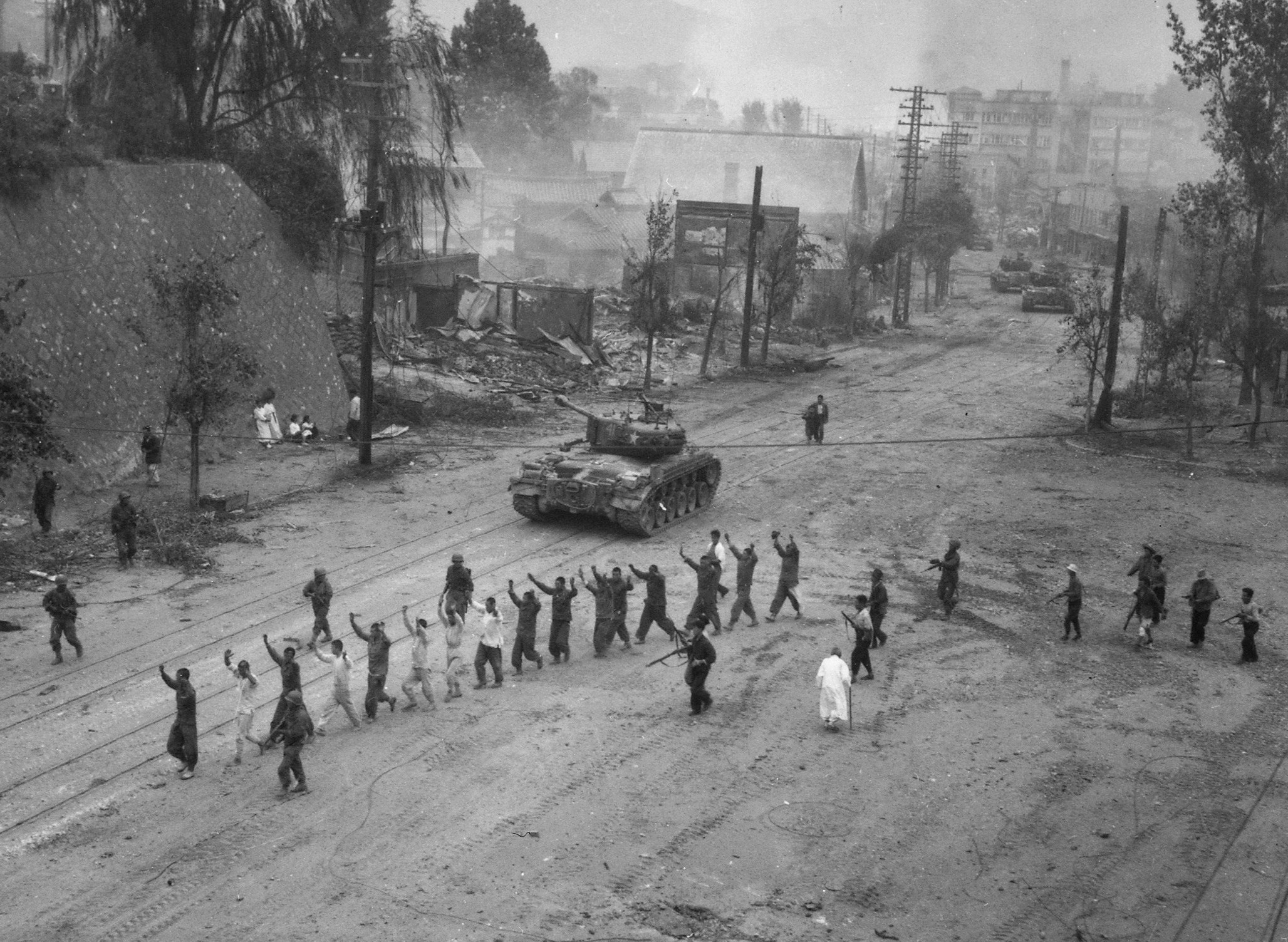 American M26 Pershing tanks in downtown Seoul, South Korea, in the Second Battle of Seoul during the Korean War. In the foreground, United Nations troops round up North Korean prisoners-of-war.